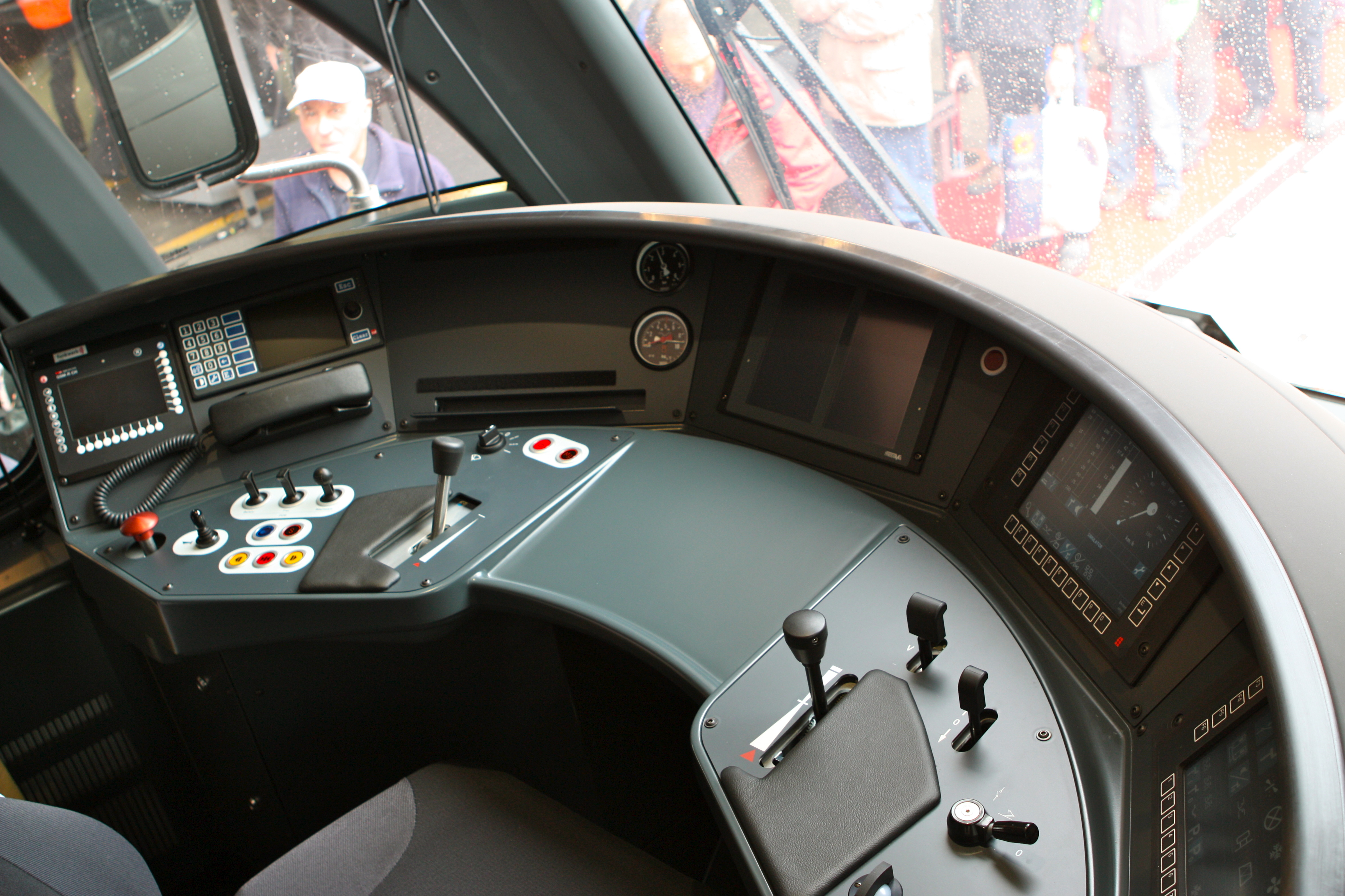 SBB RABe 511 Cab